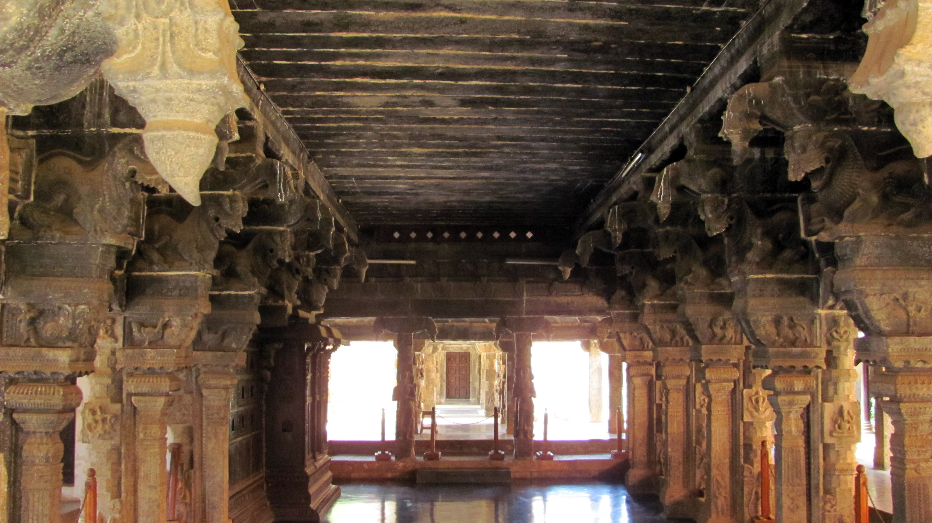 Padmanapuram palace